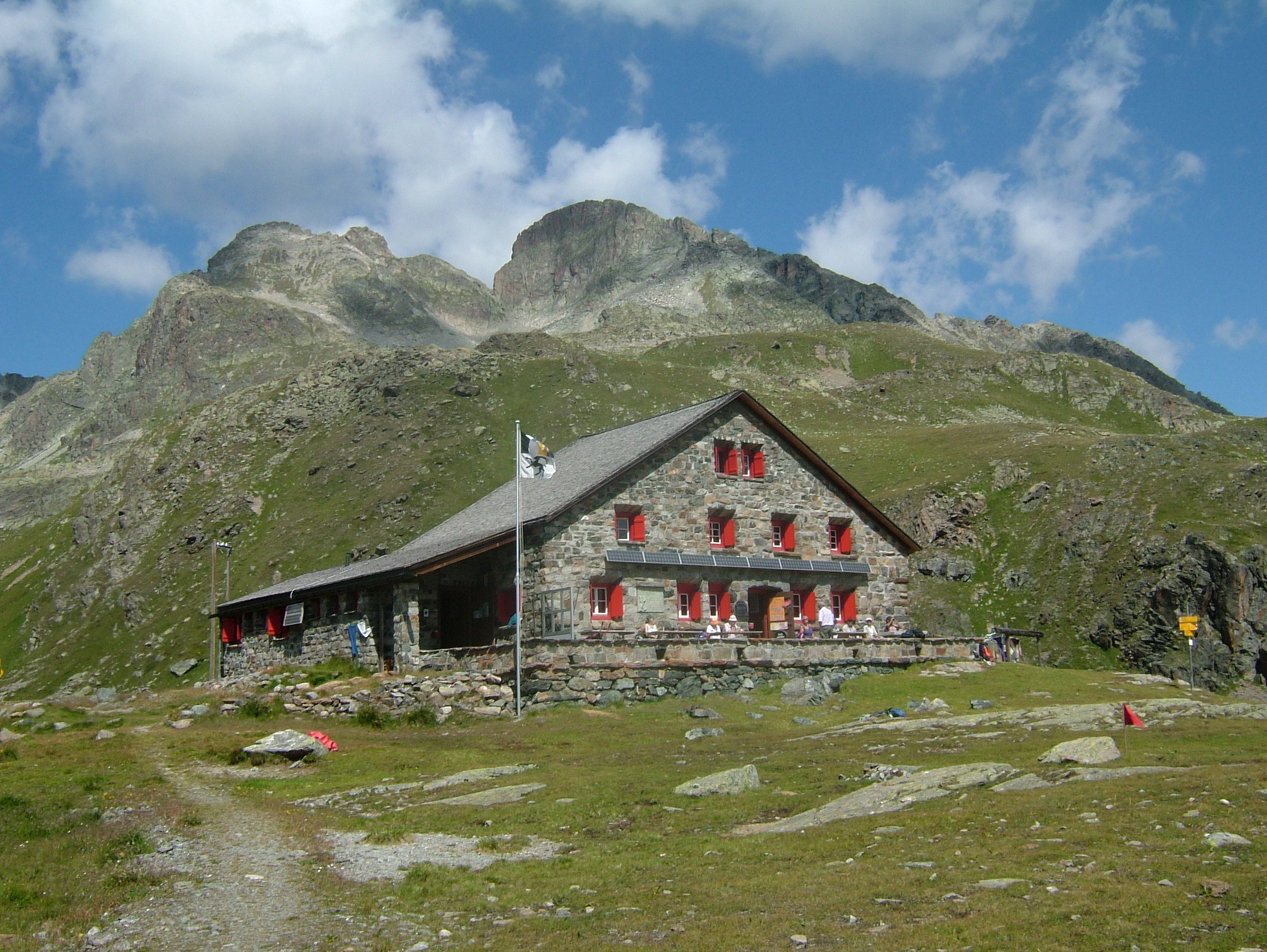 Davos - Grialetsch, Chamanna da Grialetsch (2542m), Radüner Rothorn (3022m), Piz Radönt (3065m)